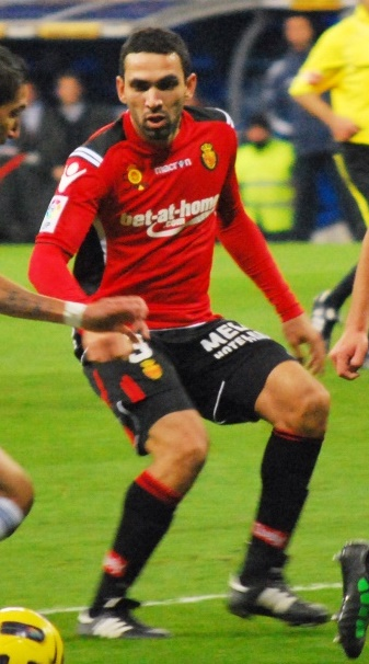 Brazilian football player João Victor while playing for RCD Mallorca